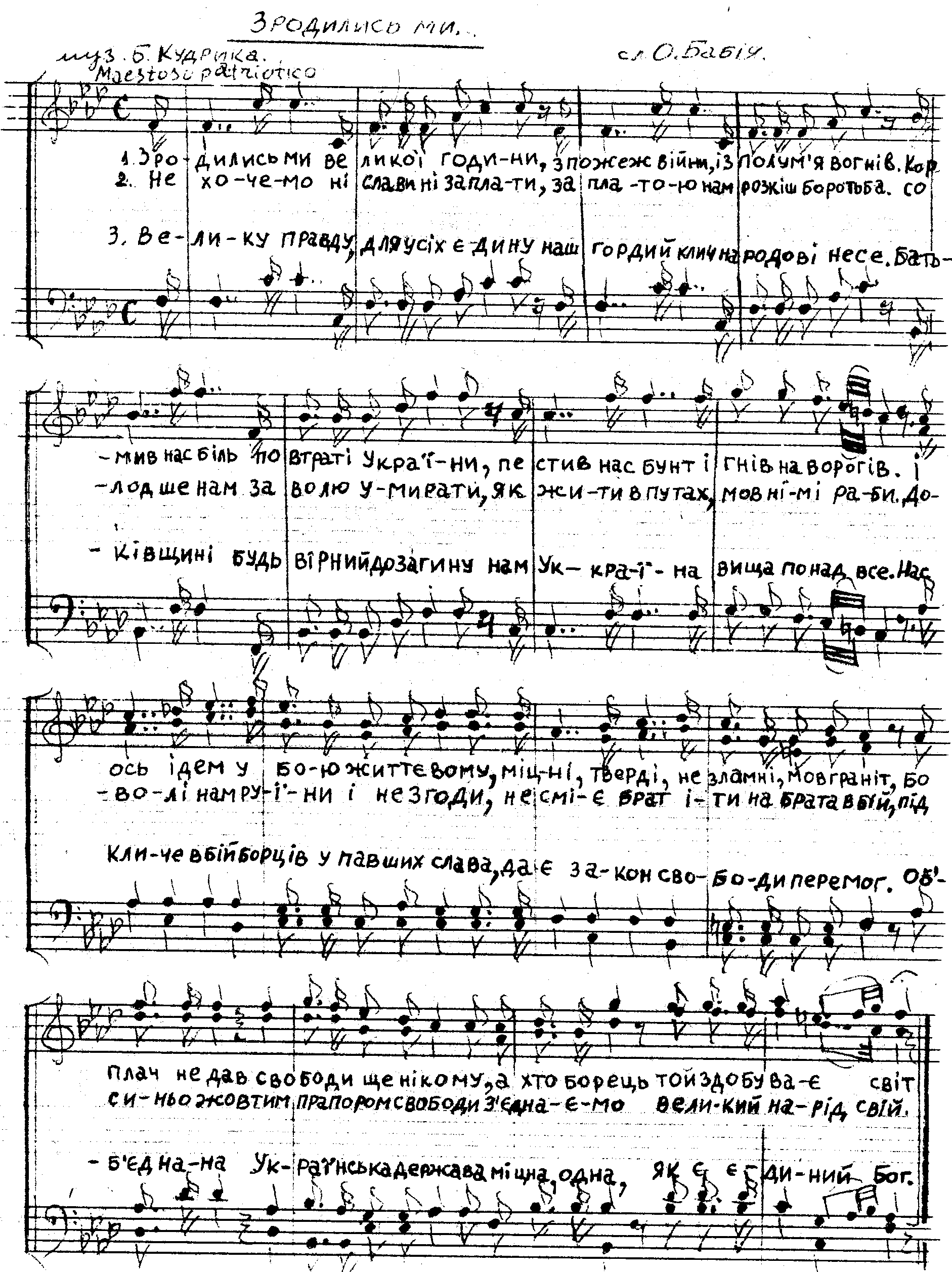 We were born in a great hour, the anthem of the Organization of Ukrainian Nationalists and the Ukrainian Insurgent Army. This is the original music sheet of the composition.